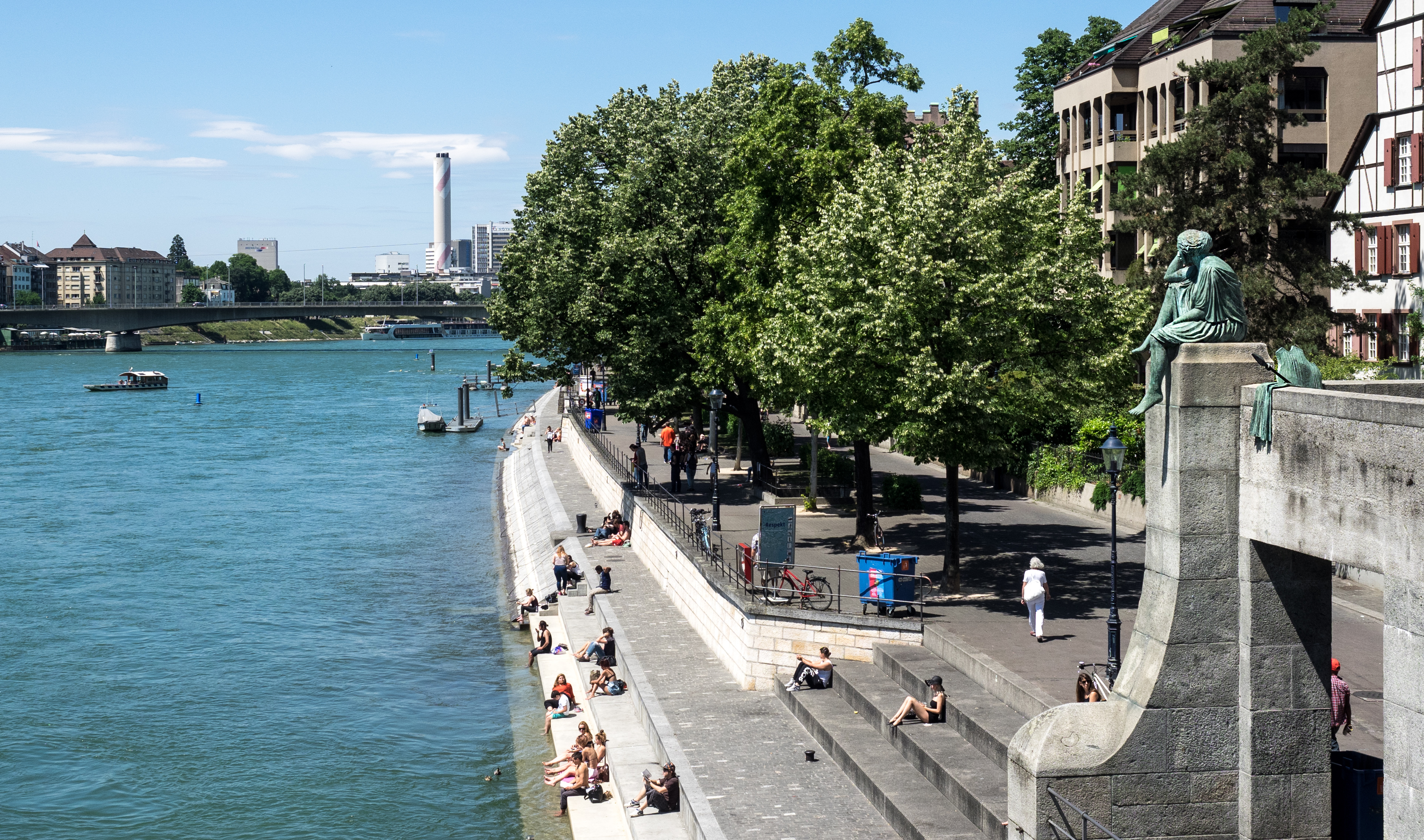 Sculpture by Bettina Eichin, placed at Mittlere Brücke in Basel, Switzerland.